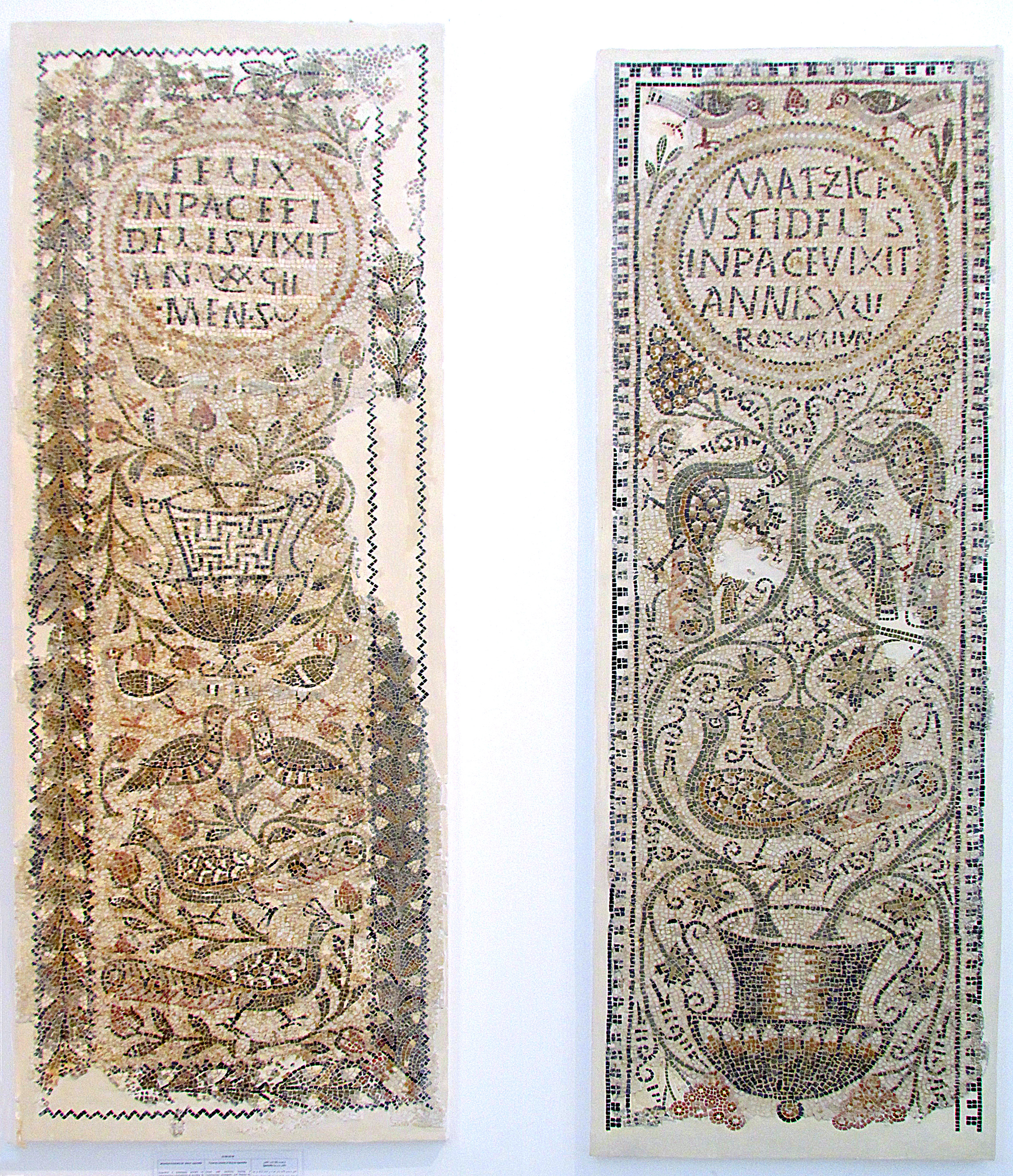 Roman funerary mosaic (Bardo Museum)